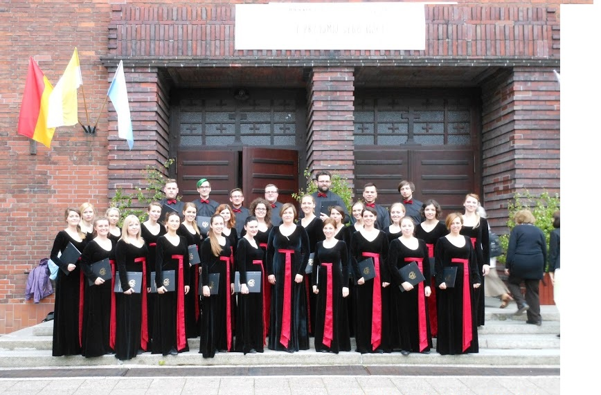 Chór podczas Wrocławskiego Międzynarodowego Festiwalu Chóralnego Vratislavia Sacra